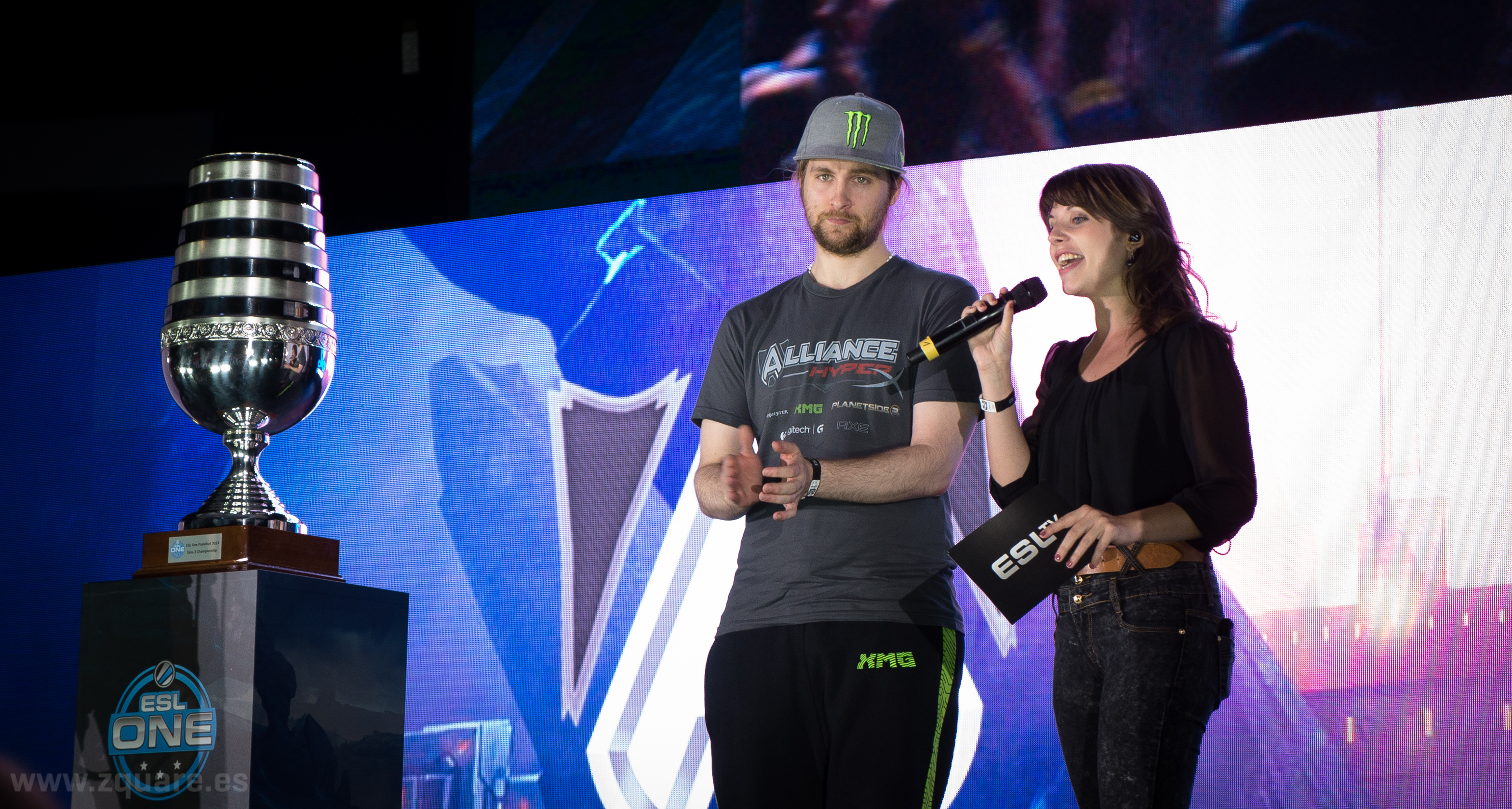 Dota 2 player Loda (Jonathan Berg) at the ESL One Frankfurt 2014